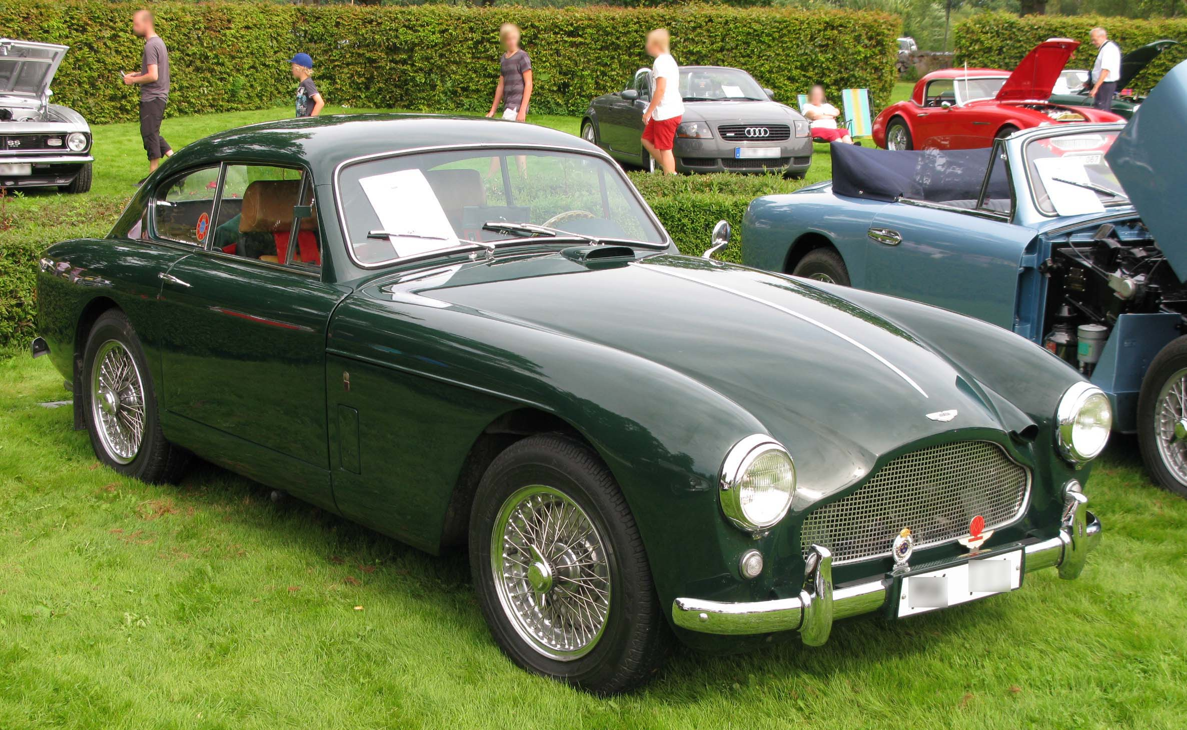 1957 Aston Martin DB Mk III.Event: Sportbilsdagen i Västervik 2012.